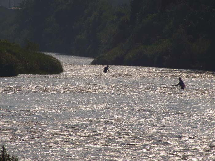 Late afternoon fishermen on the Sarugaishi River in Miyamori, Tono City, Iwate Prefecture, Japan.